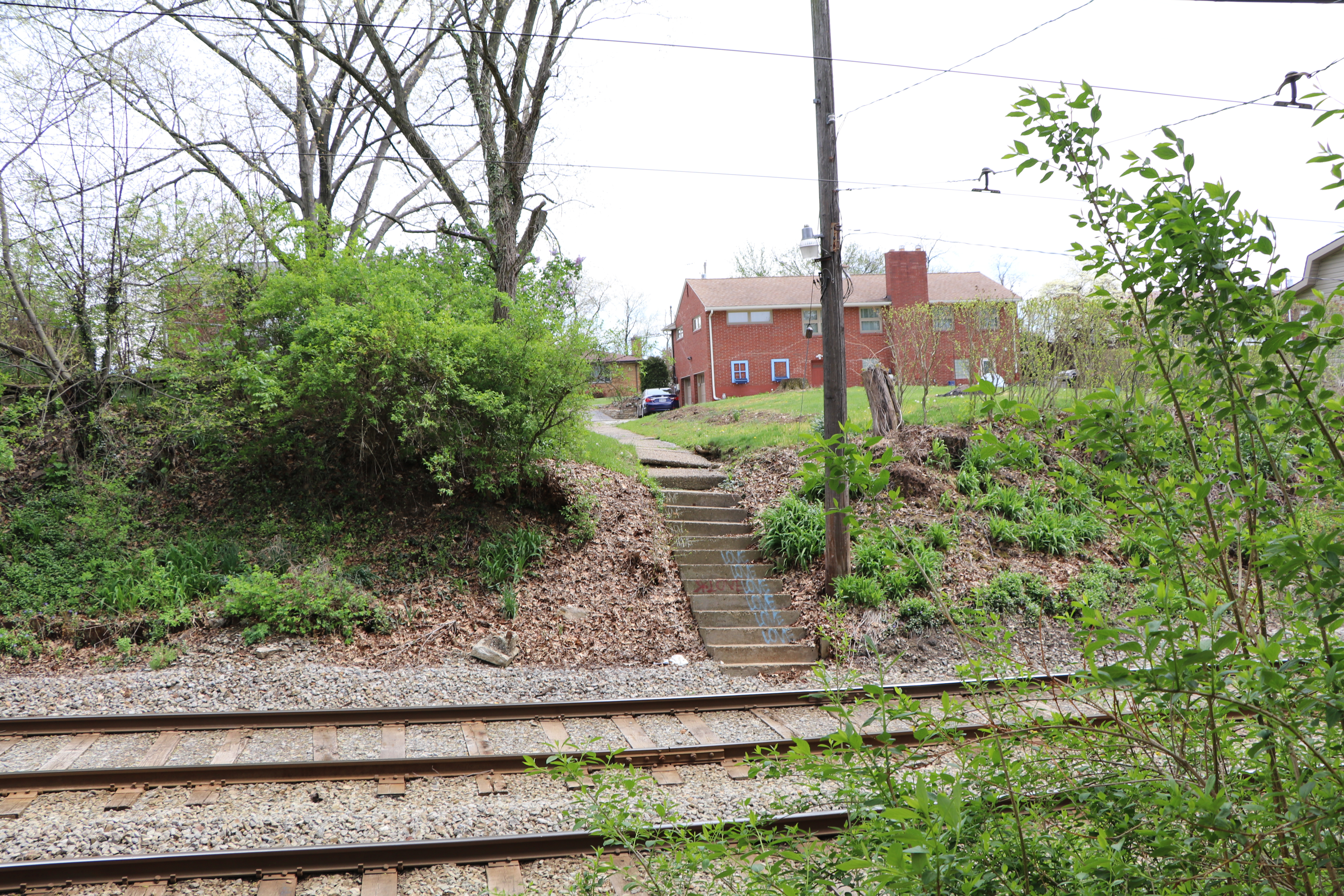 The remains of Lindermer station on the Blue Line, Bethel Park, PA in 2017. View looking east. The outbound track is in the foreground.